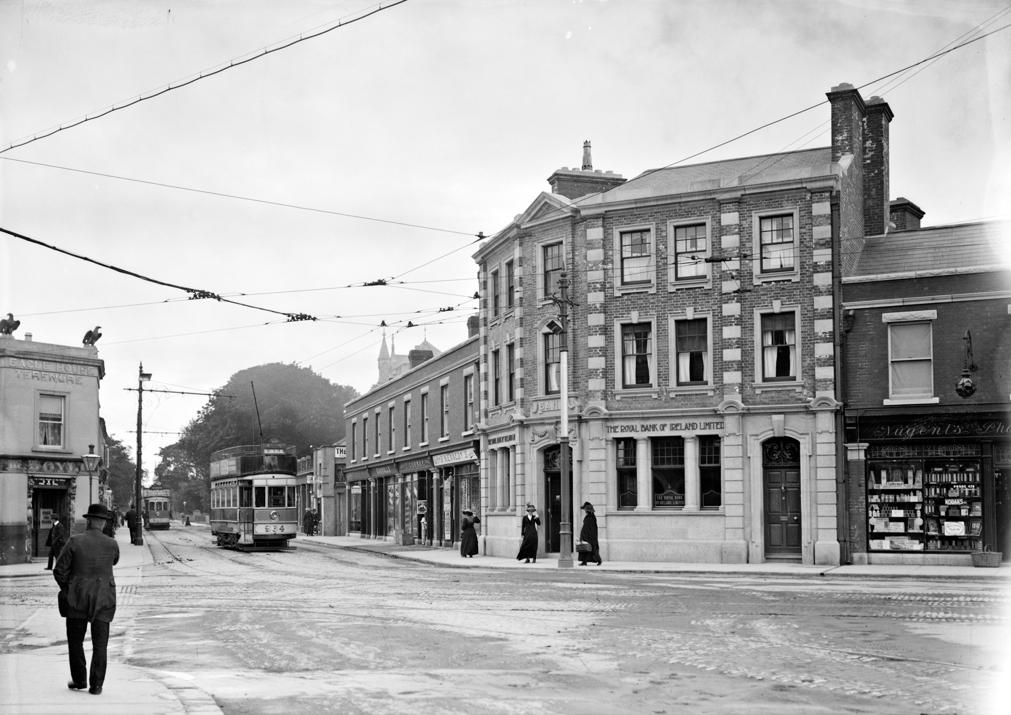 From the divine of yesterday to the elegance of Terenure in today's shot from the Eason collection. A familiar junction to Dublin southsiders, it has TWO trams (and not just the one the cataloguer spotted). Even with that, it is quieter than this Mary has ever seen - unless very early on Sunday mornings! Kudos today to [/photos/mikeegee/ Mike Grimes] and [/photos/beachcomberaustralia/ beachcomberaustralia] for input on the location. And to [/photos/gnmcauley/ Niall McAuley] for refining the date range (to c.1911-1916), before [/photos/91549360@N03/ O Mac] spotted a companion image in the catalogue - which all but confirms this image to be mid-1914 (possibly sometime in or around July 1914)... Photographer: Unknown Collection: Eason Photographic Collection Date: Catalogue range c.1900-1939. Though likely mid-1914 NLI Ref: EAS_2035 You can also view this image, and many thousands of others, on the NLI’s catalogue at